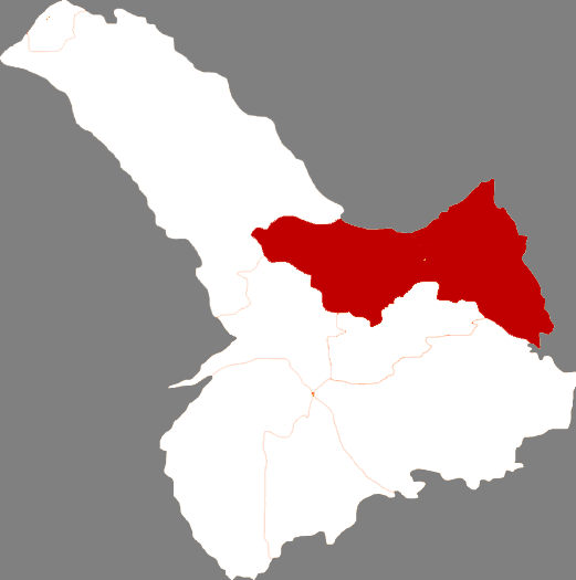 Locator map of Horqin Left Middle Banner in Tongliao, Inner Mongolia, China